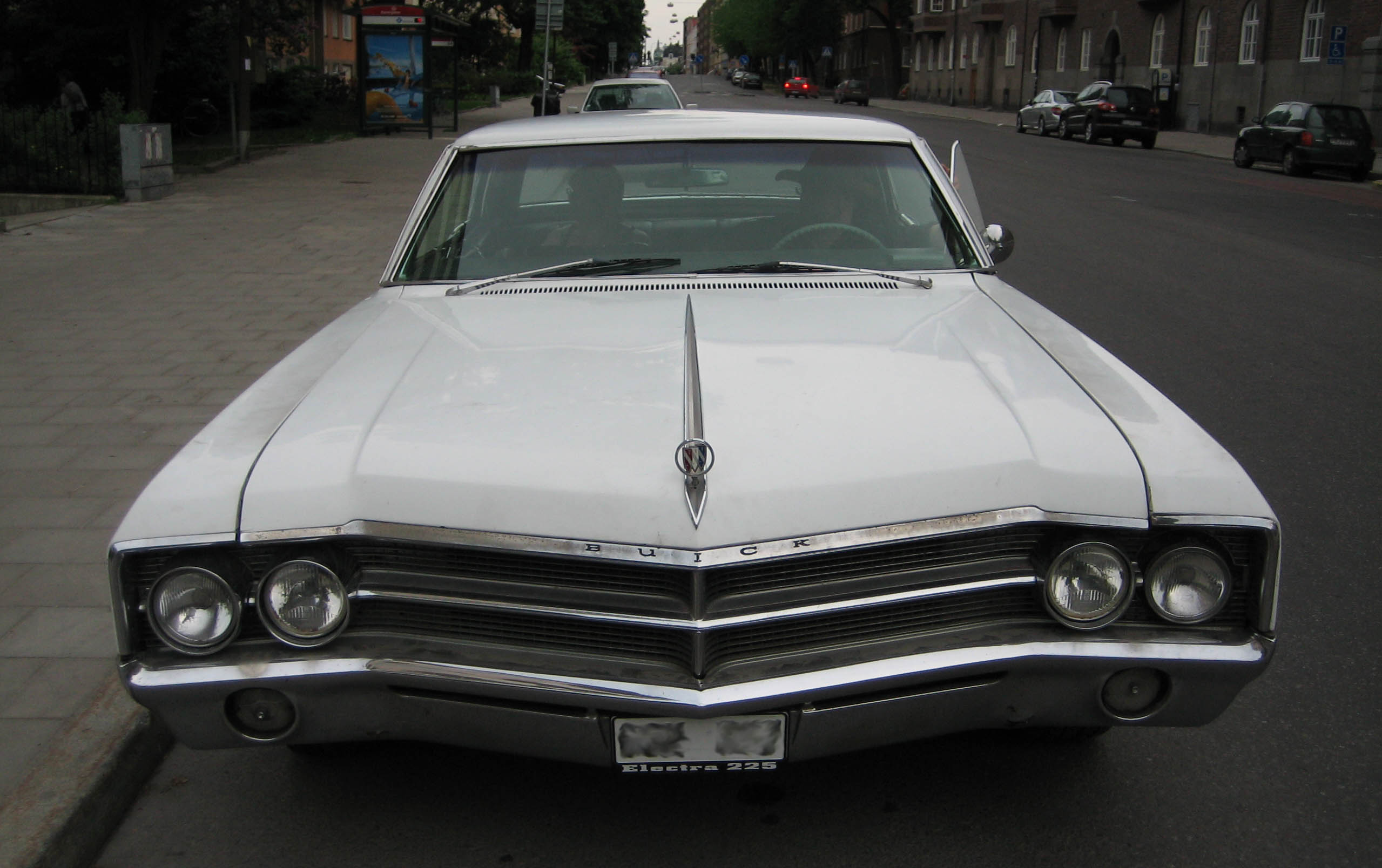 A Buick Electra 225 (1965) front view. Drivers ventilation window open. Picture taken in Stockholm 2008. Registration plate smudged by the uploader.